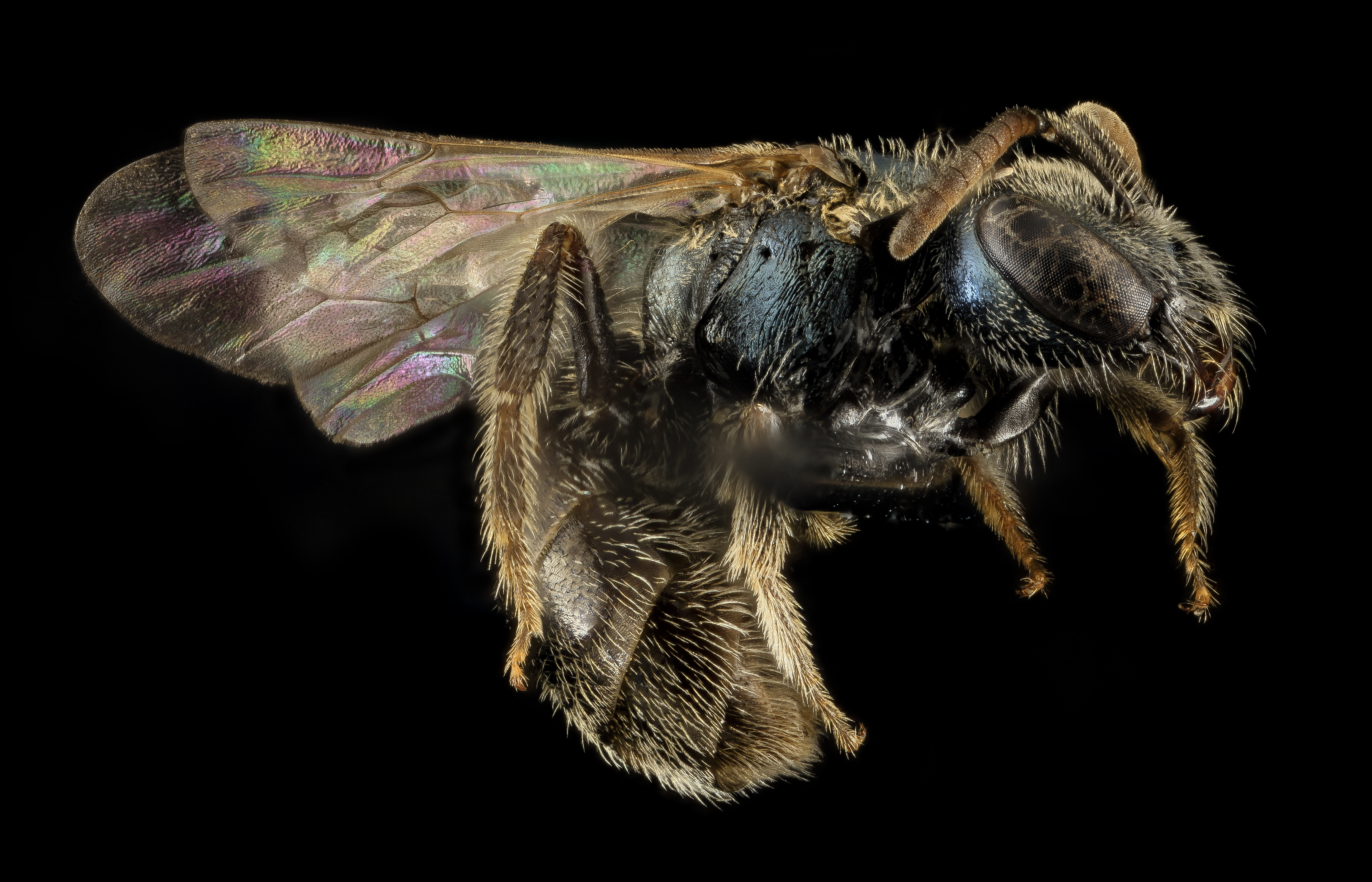 Now, this is an interesting bee. Obviously it has occurred in Michigan, and indeed until quite recently that was the only place it was known from and in fact, was known only from one single specimen. However, it was so unique that was described by Ted Mitchell over 50 years ago as a new species. Part of its uniqueness is that it is a cleptoparasite of other Lasioglossum species. Also interesting is the fact that it was found, this particular specimen that is, in Queens, New York City at the very tip of breezy point. You never know what interesting natural history you'll find anywhere. Photographed by Brooke Alexander. 18:40, 9 August 2015 (UTC)18:40, 9 August 2015 (UTC) 0 18:40, 9 August 2015 (UTC)18:40, 9 August 2015 (UTC) All photographs are public domain, feel free to download and use as you wish. Photography Information: Canon Mark II 5D, Zerene Stacker, Stackshot Sled, 65mm Canon MP-E 1-5X macro lens, Twin Macro Flash in Styrofoam Cooler, F5.0, ISO 100, Shutter Speed 200 Beauty is truth, truth beauty - that is all Ye know on earth and all ye need to know " Ode on a Grecian Urn" John Keats Contact information: Sam Droege 301 497 5840